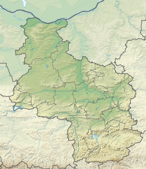 Relief location map Veliko Tarnovo Province, Bulgaria. Geographic limits of the map